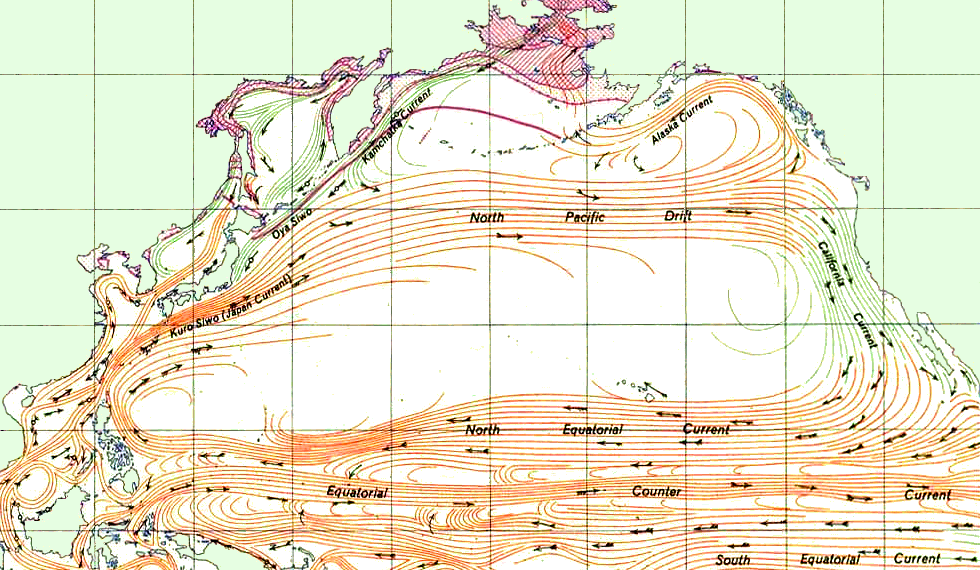 The North Pacific Gyre, a clockwise-swirling vortex of ocean currents comprising most of the northern Pacific Ocean